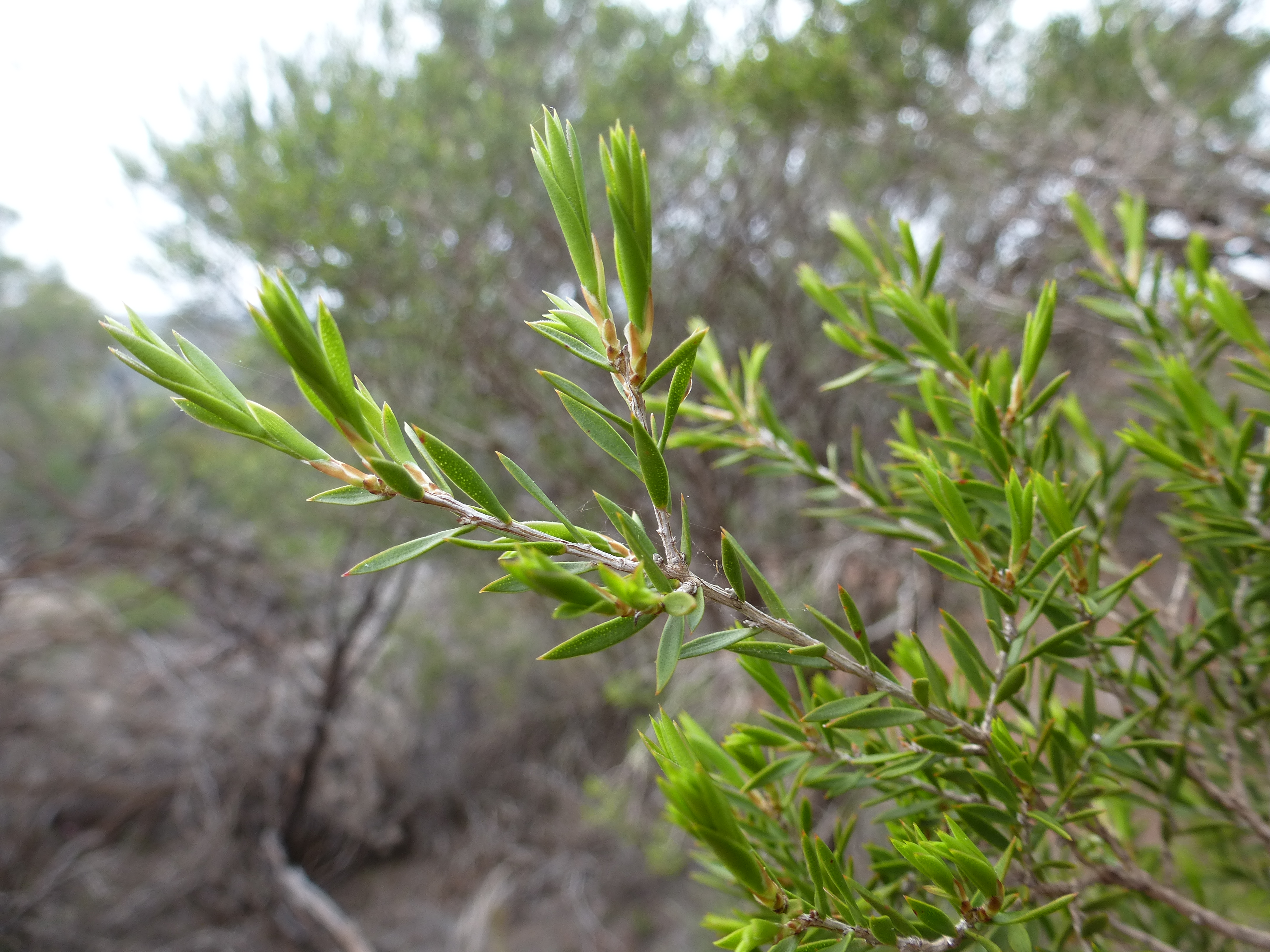 Melaleuca delta at the type location near Wongan Hills